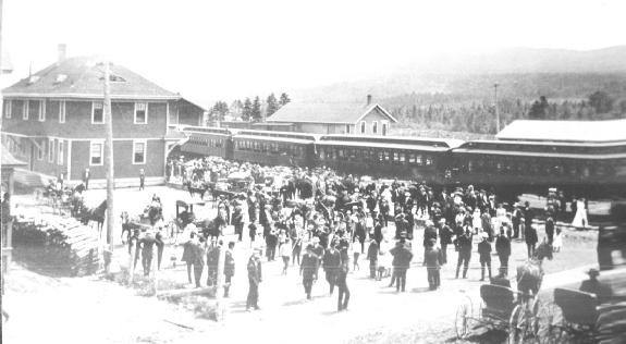 Old International Railway Station-Campbellton, prior to 1910.